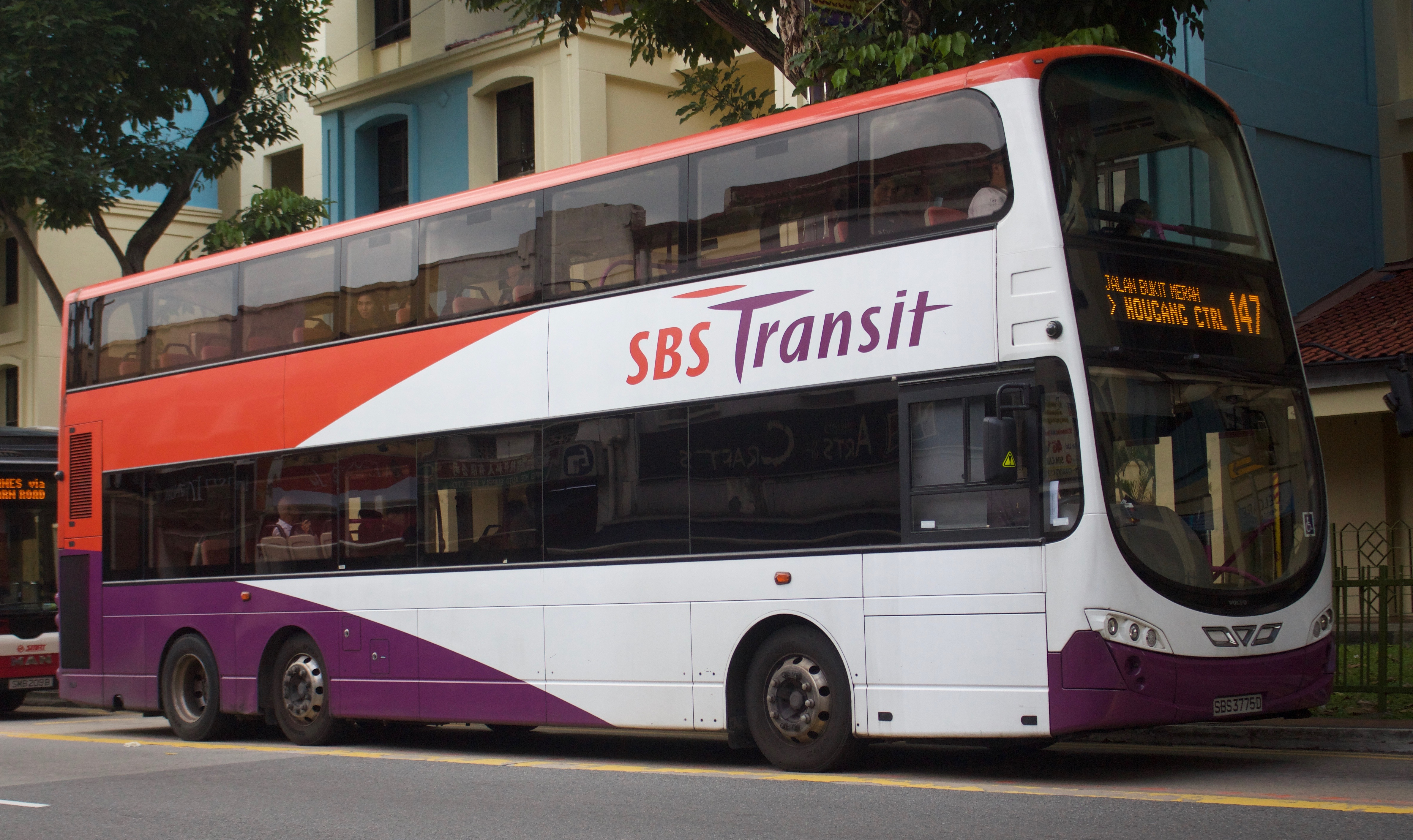 Volvo B9TL (Wright Eclipse Gemini 2), SBS Transit